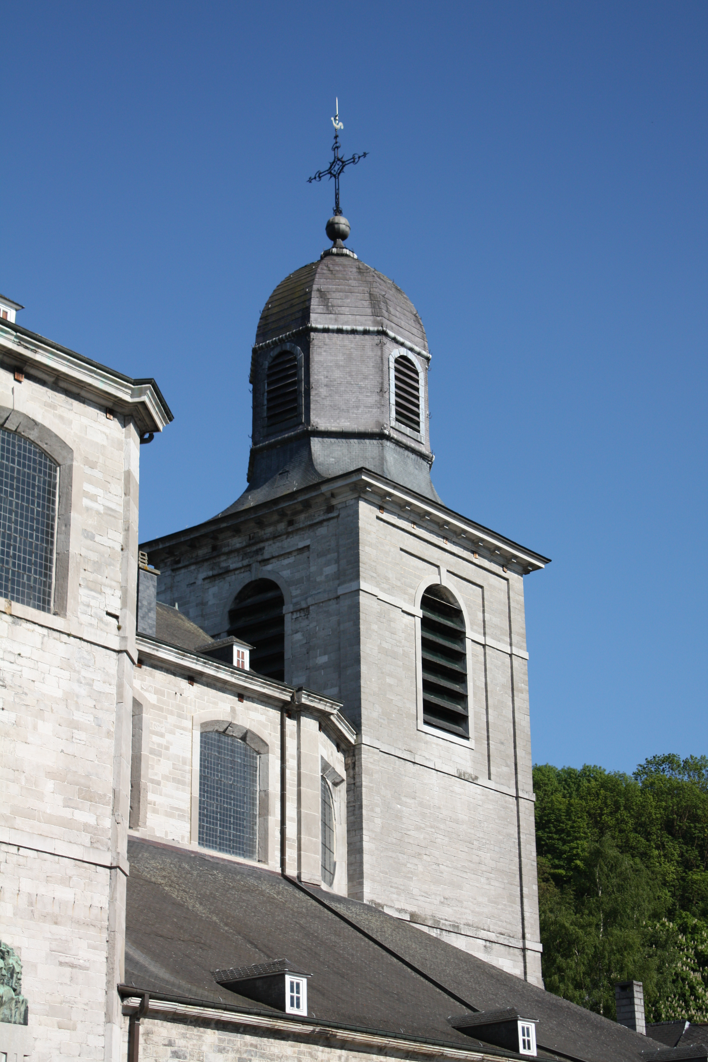 The Sainte Begge collegiate church in Andenne, Belgium.